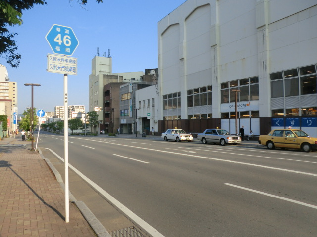 This is Fukuoka Prefectural Road No 46.Taken in front of Kurume station of Kurume city in Fukuoka prefecture,Japan.